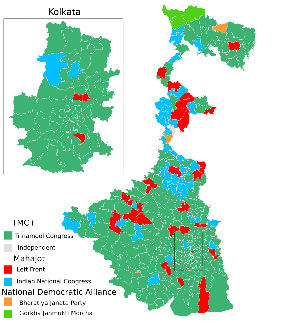 Map of results of the 2016 West Bengal Assembly election. Parties listed by alliance.